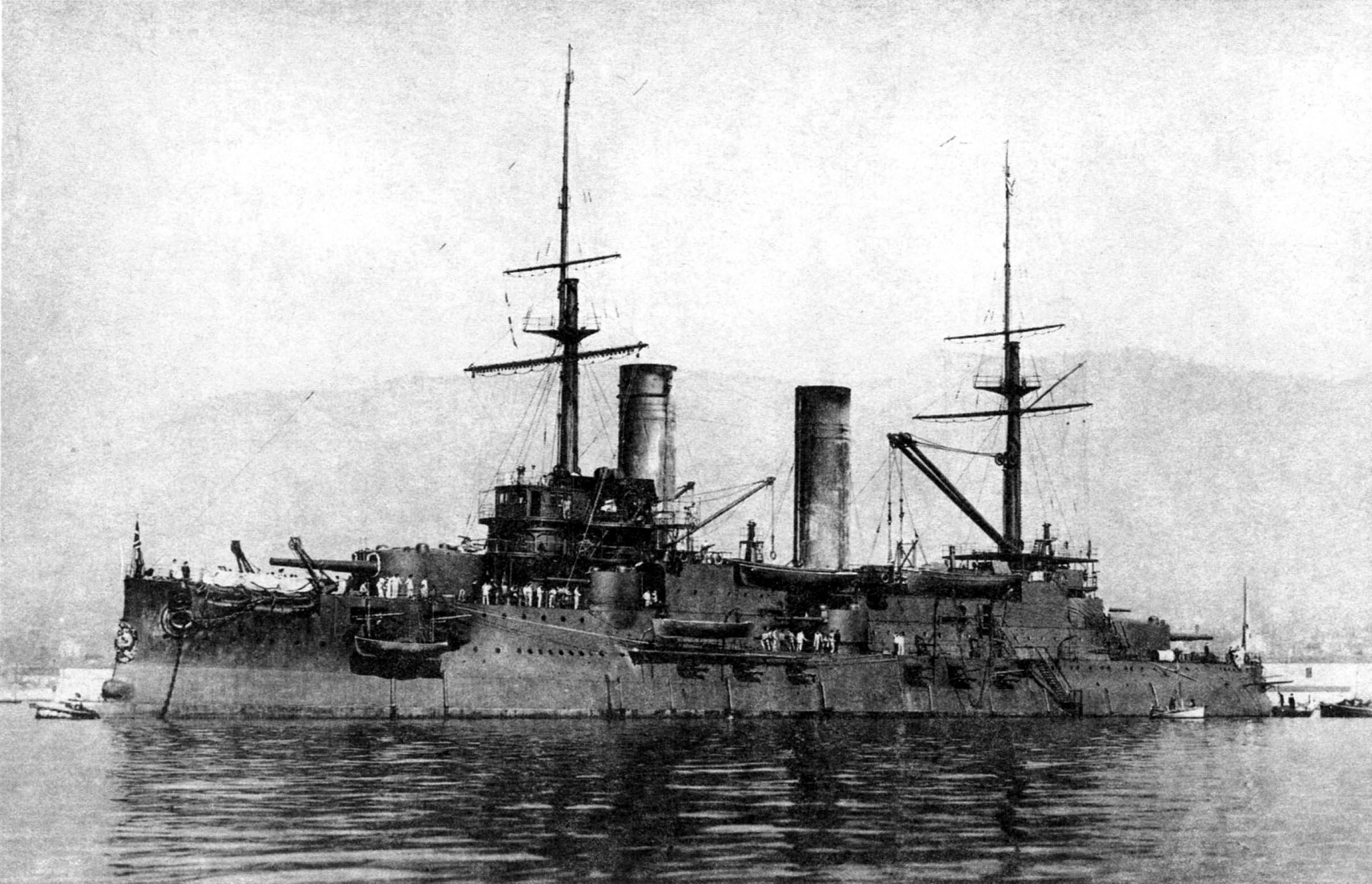 Imperial Russian battleship Slava, 1908.